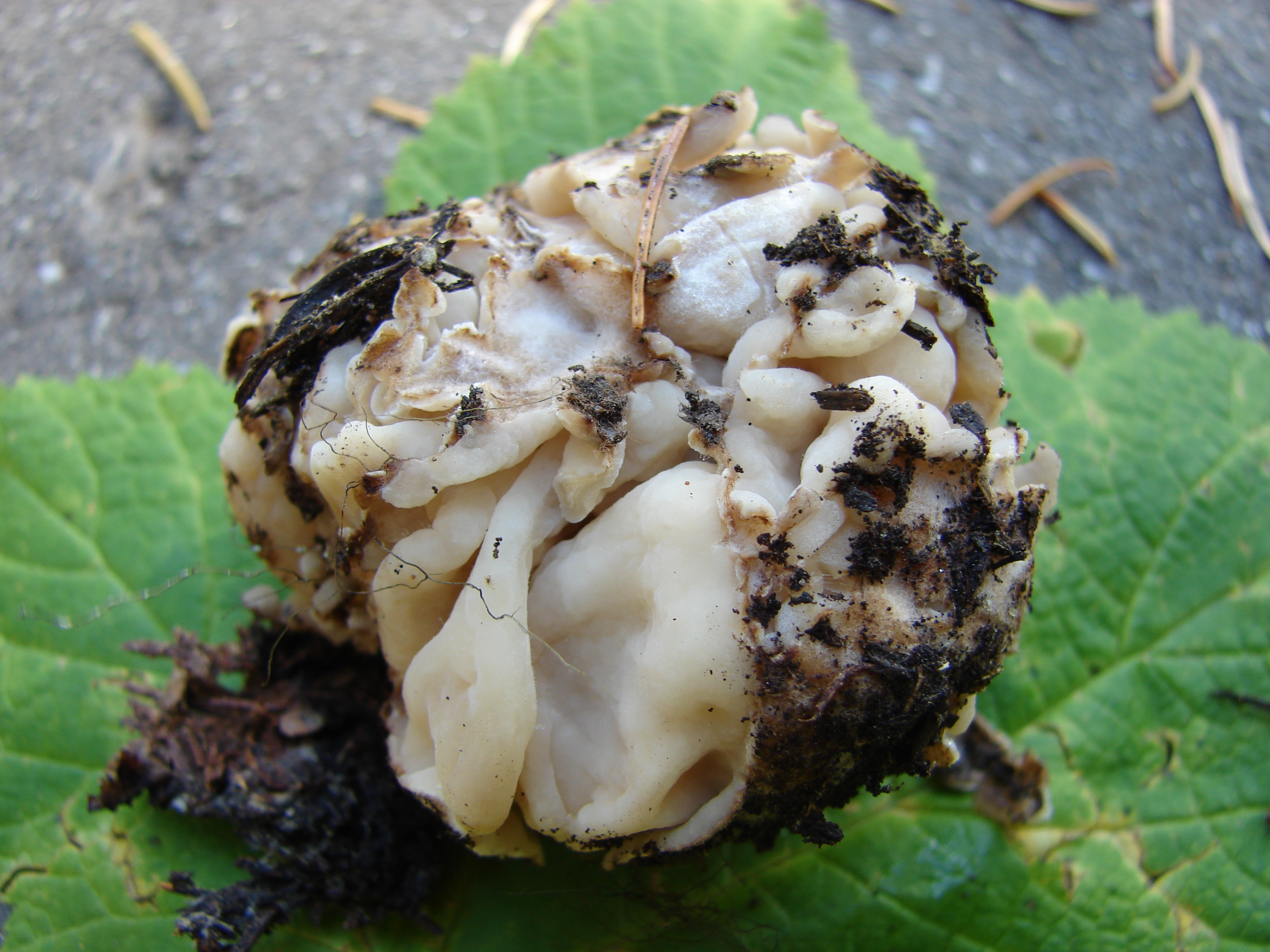 The fungal species Geopora cooperi Harkn. Photographed in Shuswap Valley, British Columbia, Canada.